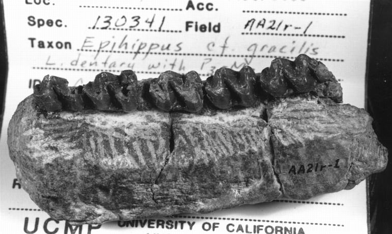 Epihippus gracilis jaw, University of California Museum of Paleontology